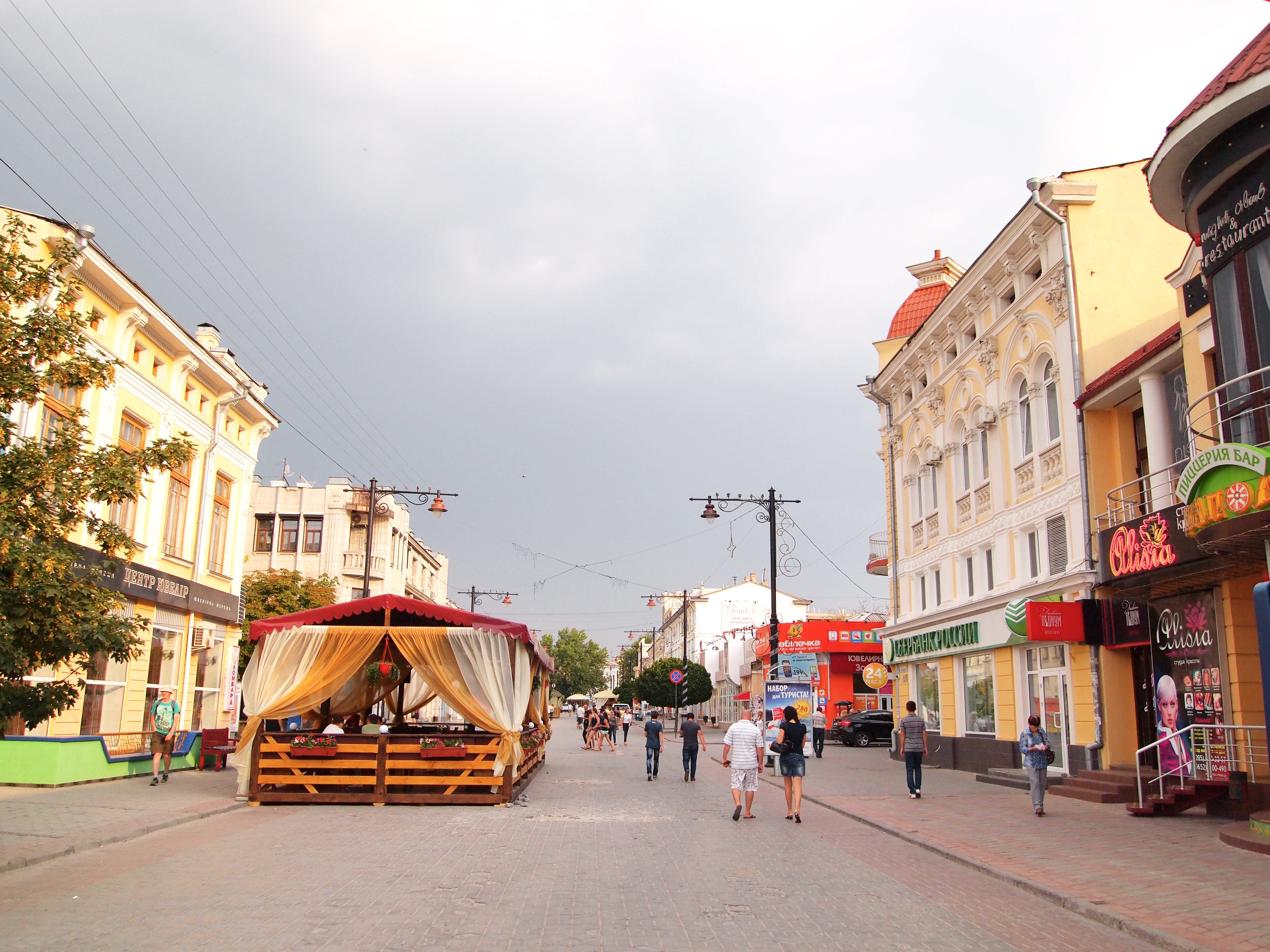 View along the Karl Marx street in Simferopol. On the left is a terrace. This photograph was taken with an Olympus E-PL1.